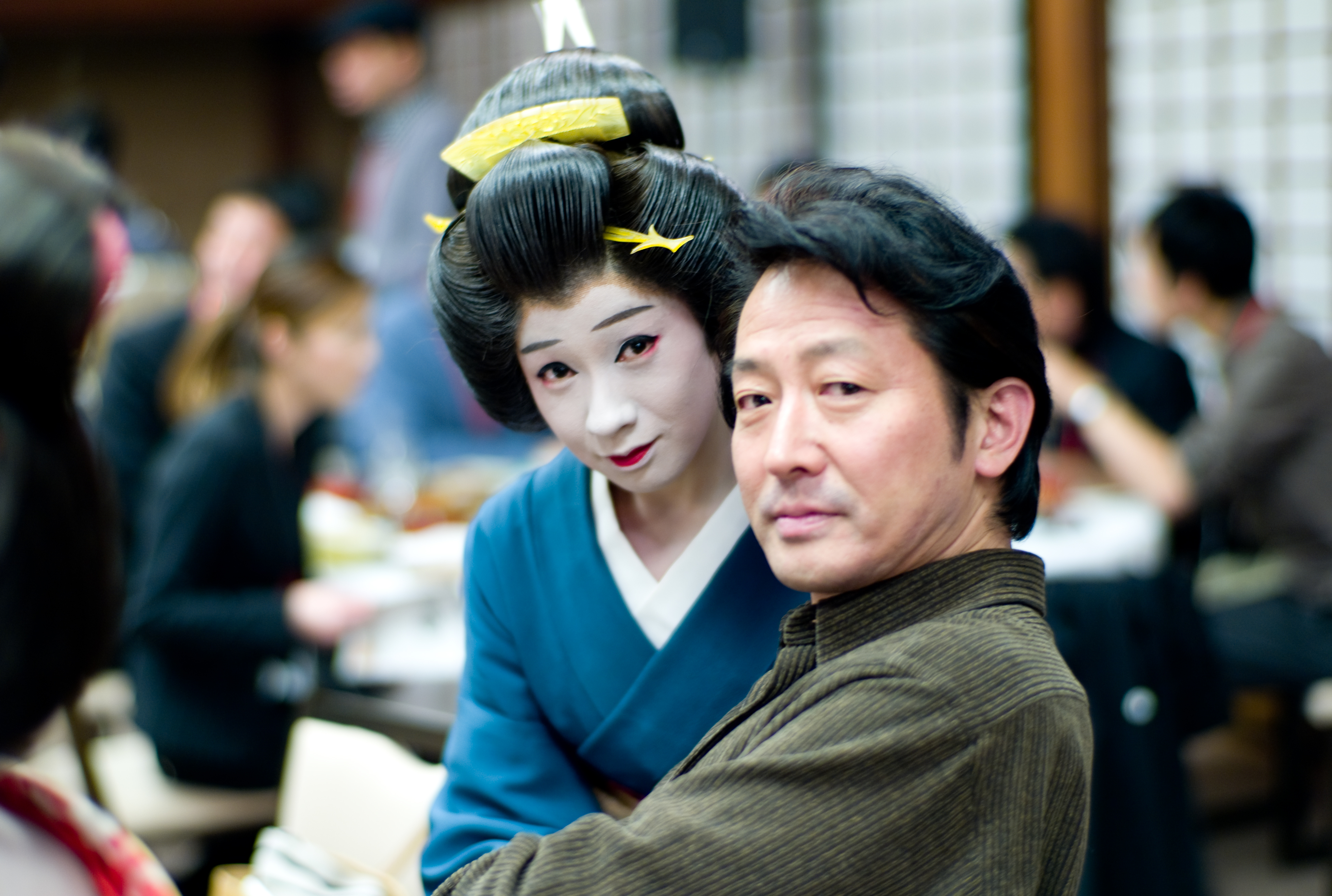 A geisha on the ozashiki in Niigata